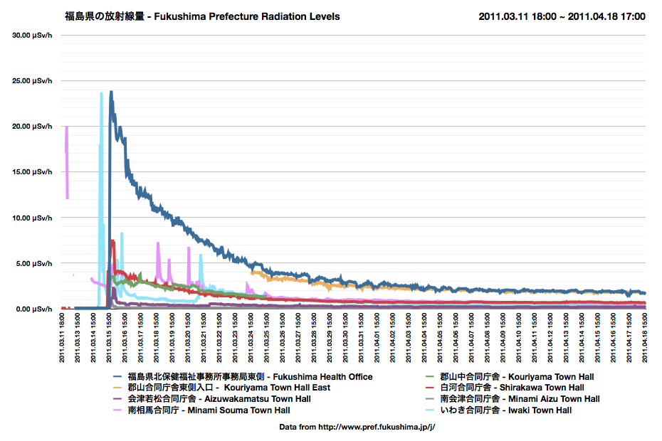 Fukushima Prefecture radiation levels from March 11 to April 18, 2011. Data source: Fukushima Prefecture Government.